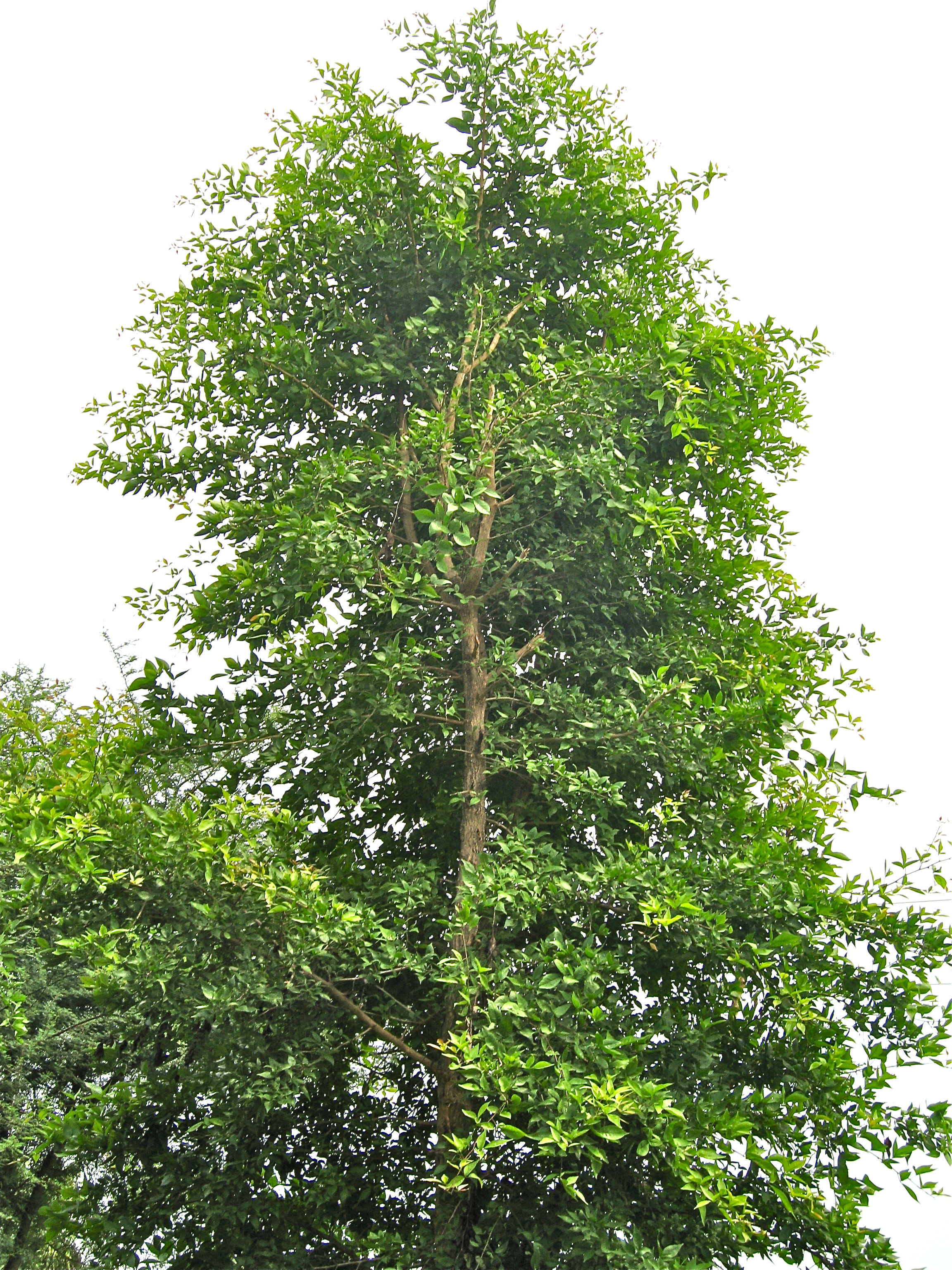 Picture of Bili Tree from CM farm in Saldi, India